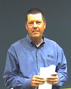 Scott McNeally cropped.